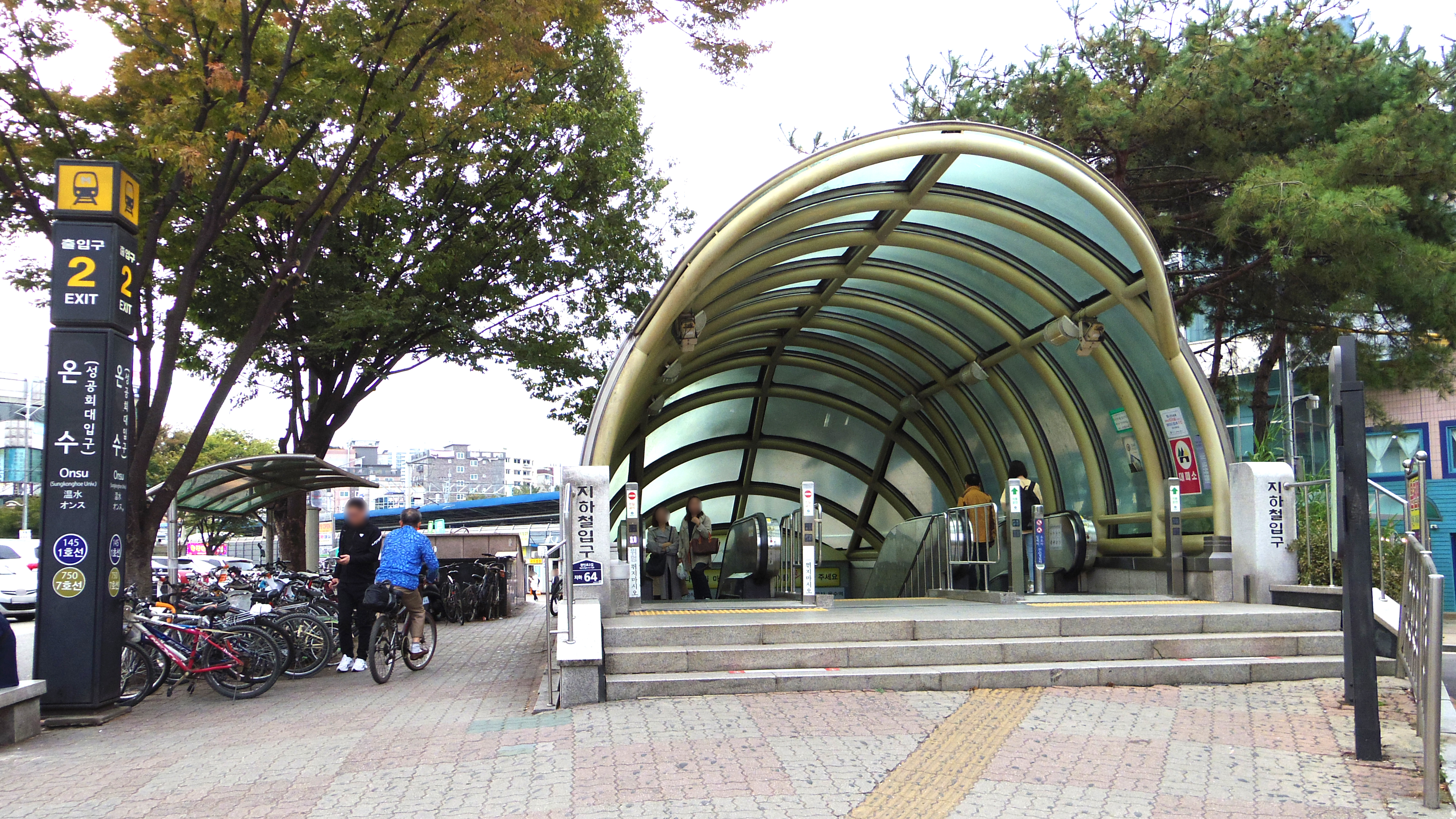 The no.2 entrance to Onsu Station on the Seoul Metro Line 7 and Line 1(Gyeongin Line) in Guro-gu, Seoul, Republic of Korea(South Korea)